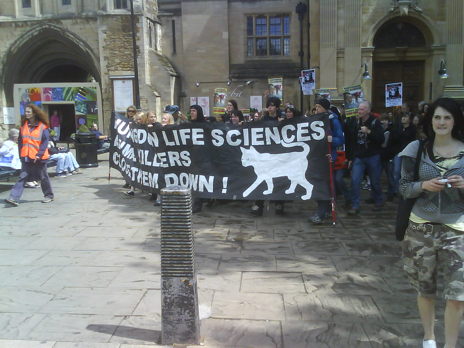 Protest in Peterborough